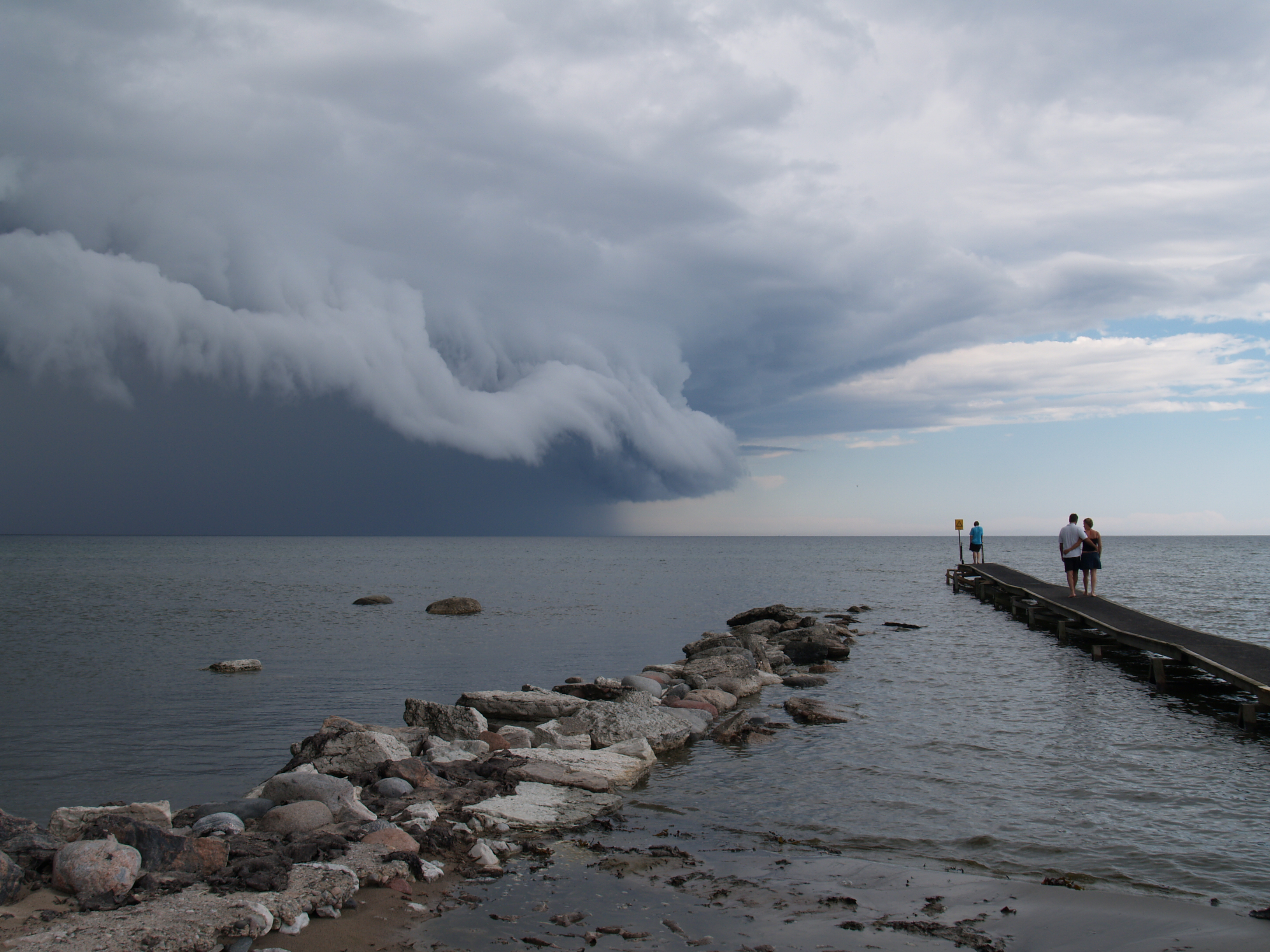 Cumulonimbus cloud at the Baltic Sea near island of Öland, Sweden.